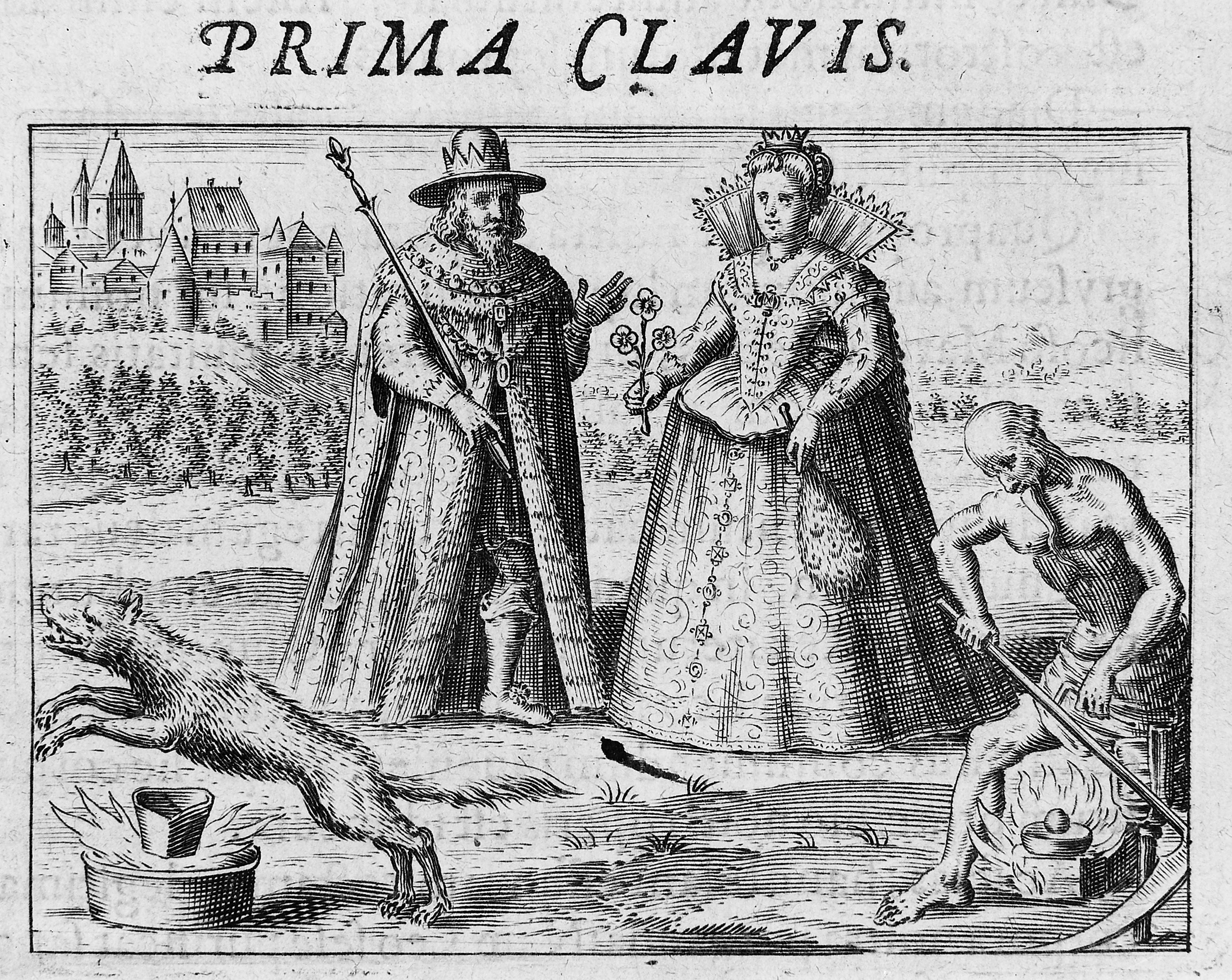 The First Key of Basil Valentine. Emblem associeted with the 'Great Work' of obtaining the Philosopher's stone. Rare Books Keywords: Alchemy